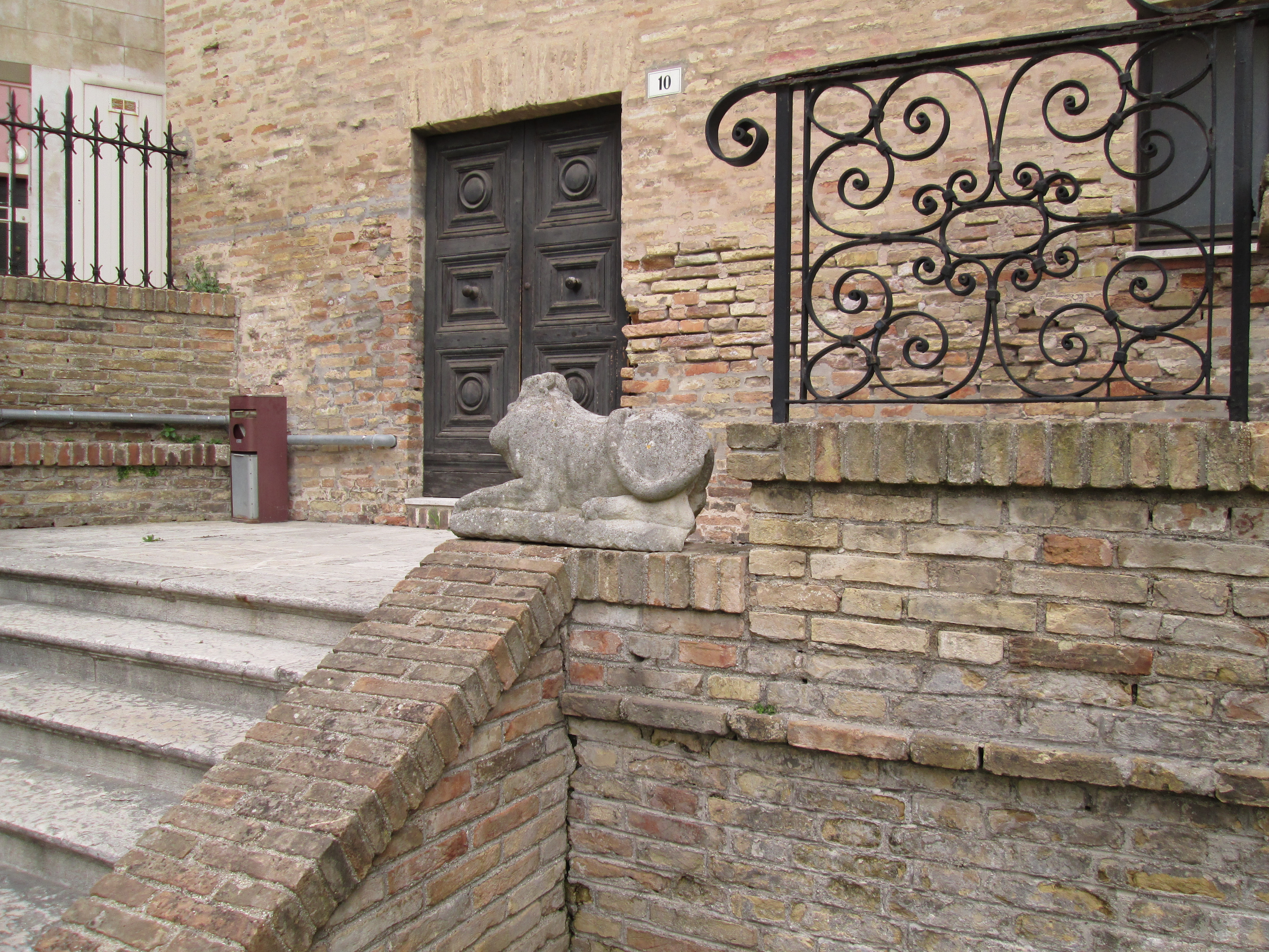 Sculpture of an animal, possibly a lion, once belonging to the Greek church of Sant'Anna (Ancona)